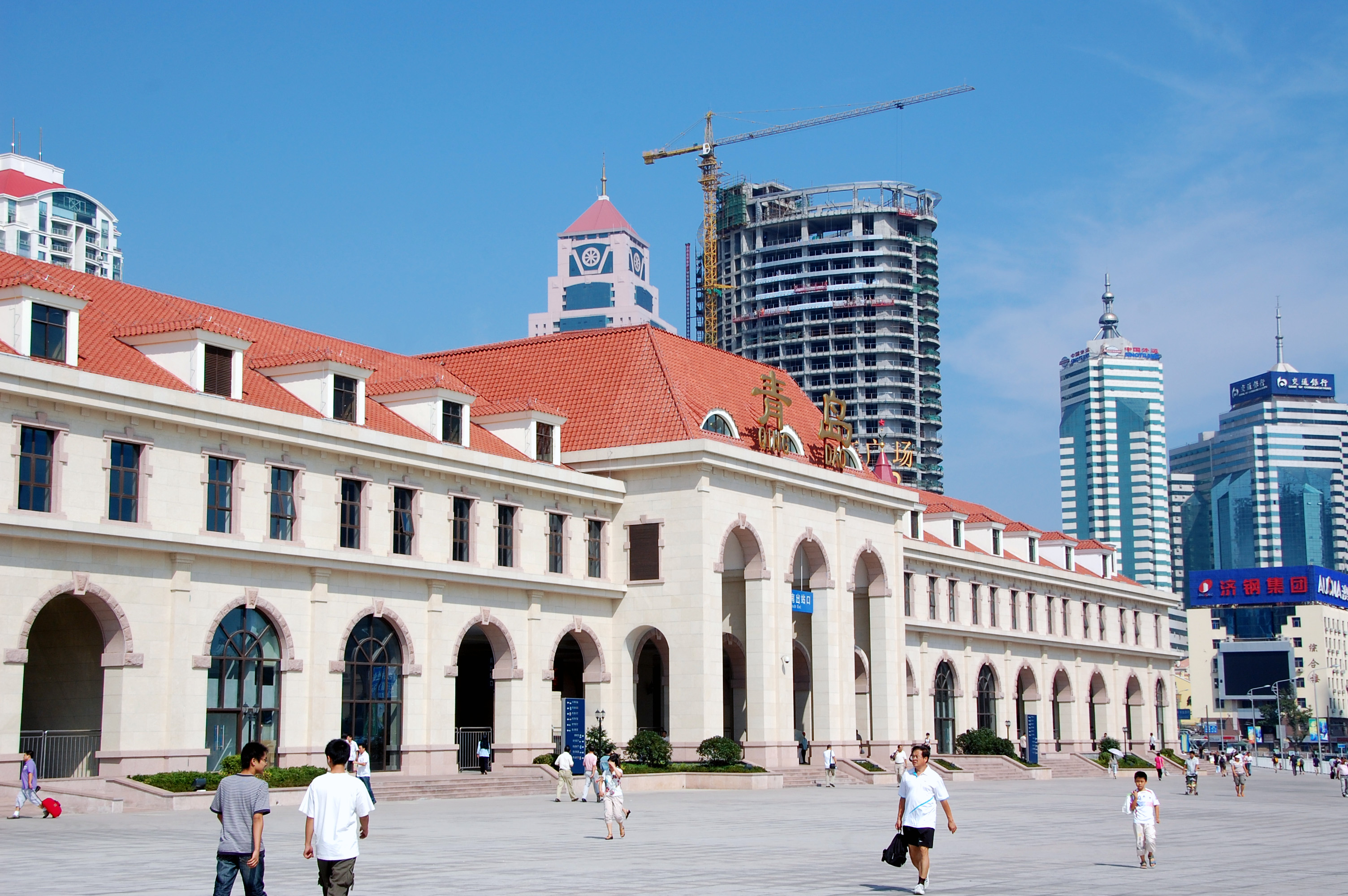 青島火車駅/青岛火车站 Qingdao Railway Station